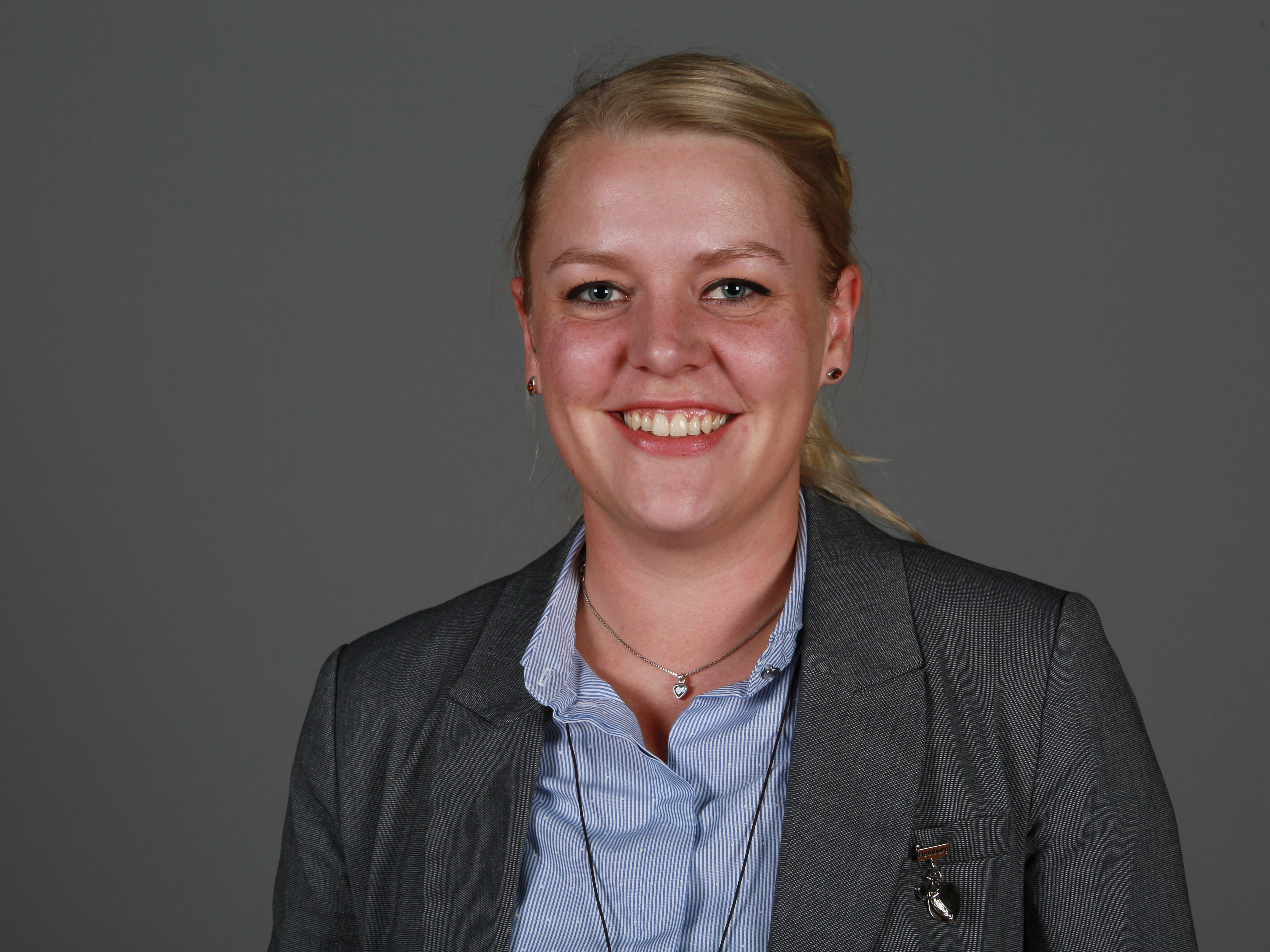 Jasmin Janzen (SPD), member of the Hamburg Parliament